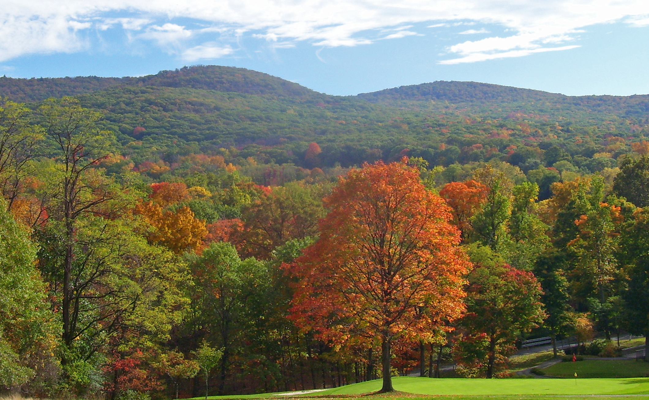 Black Rock Forest seen from near Storm King School.